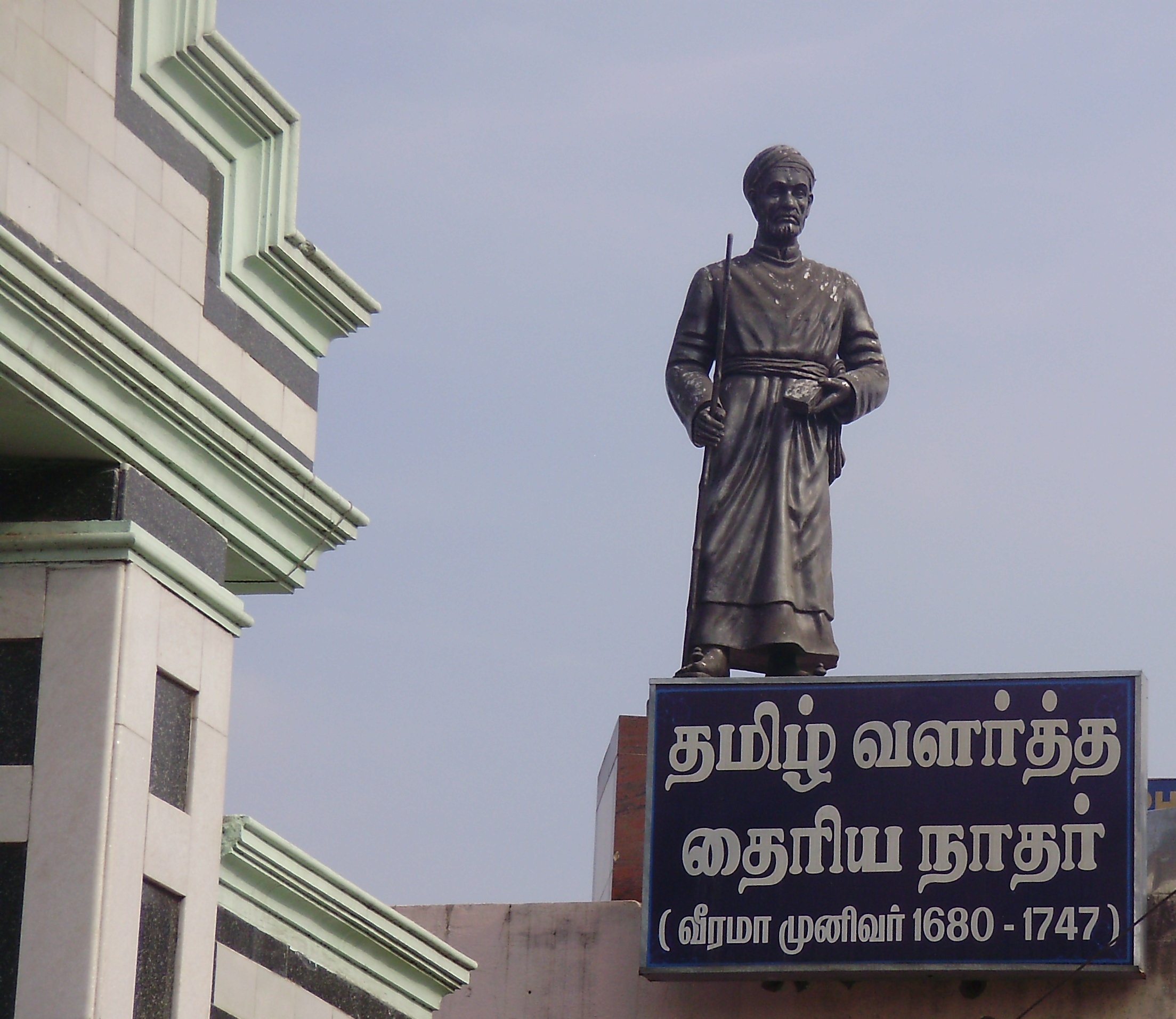 வீரமாமுனிவர் சிலை